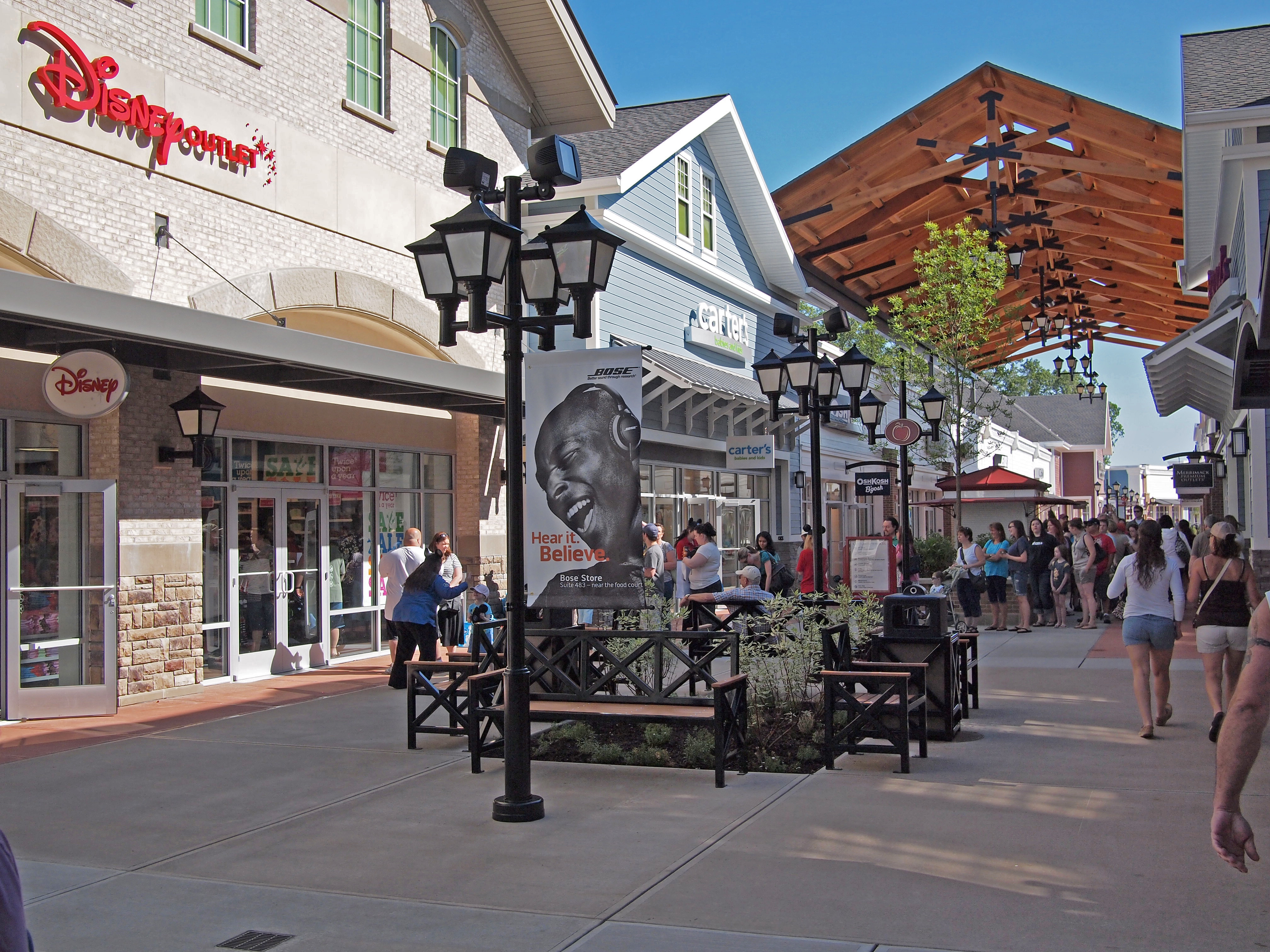 Big line at the Disney store. P6160957.jpg